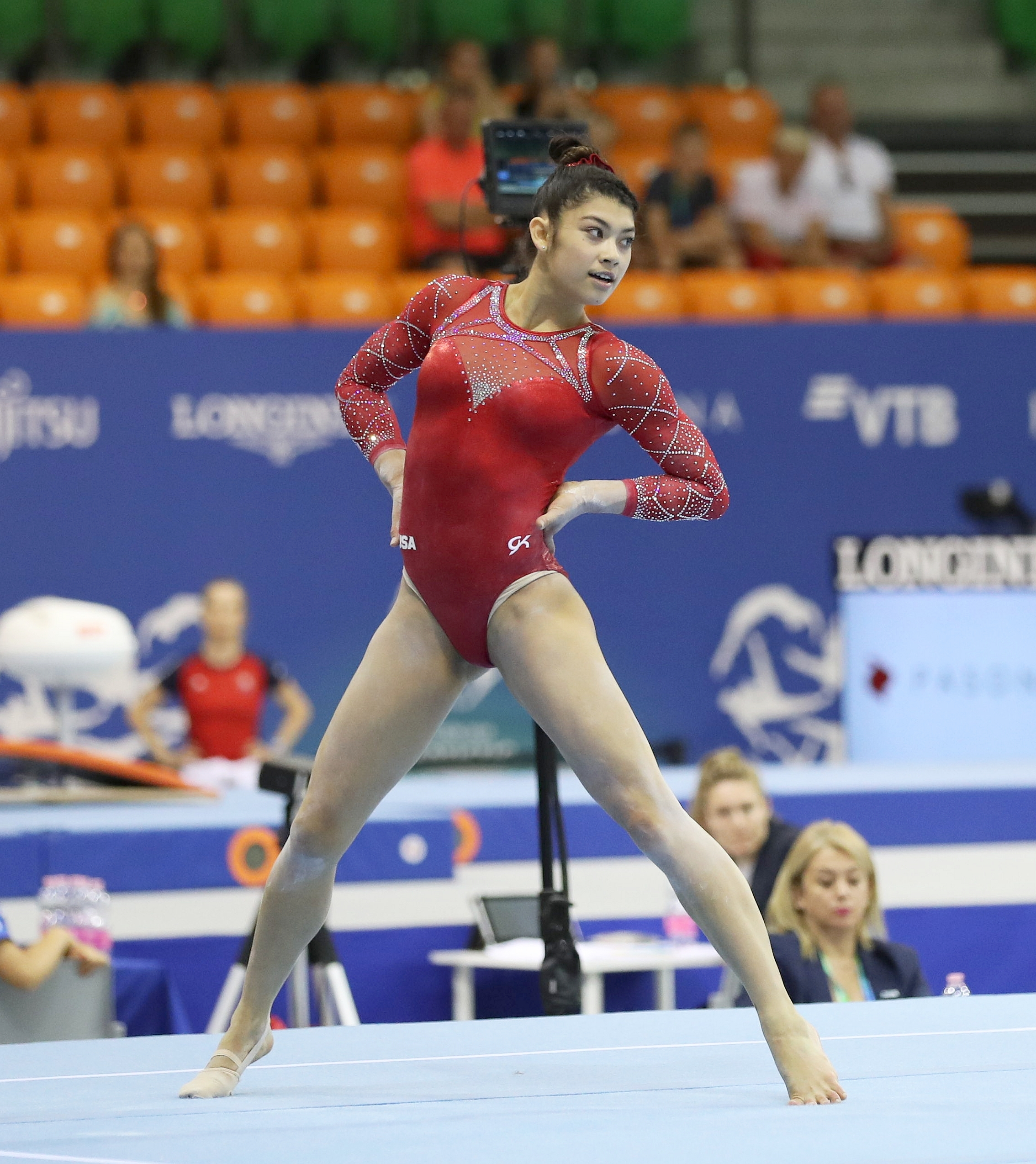 Floor exercise of subdivision 1 during the girls' all-around competition at the 1st FIG Artistic Gymnastics Junior World Championships on 28 June 2019 in Győr, Hungary. Depicted: Kayla DiCello.